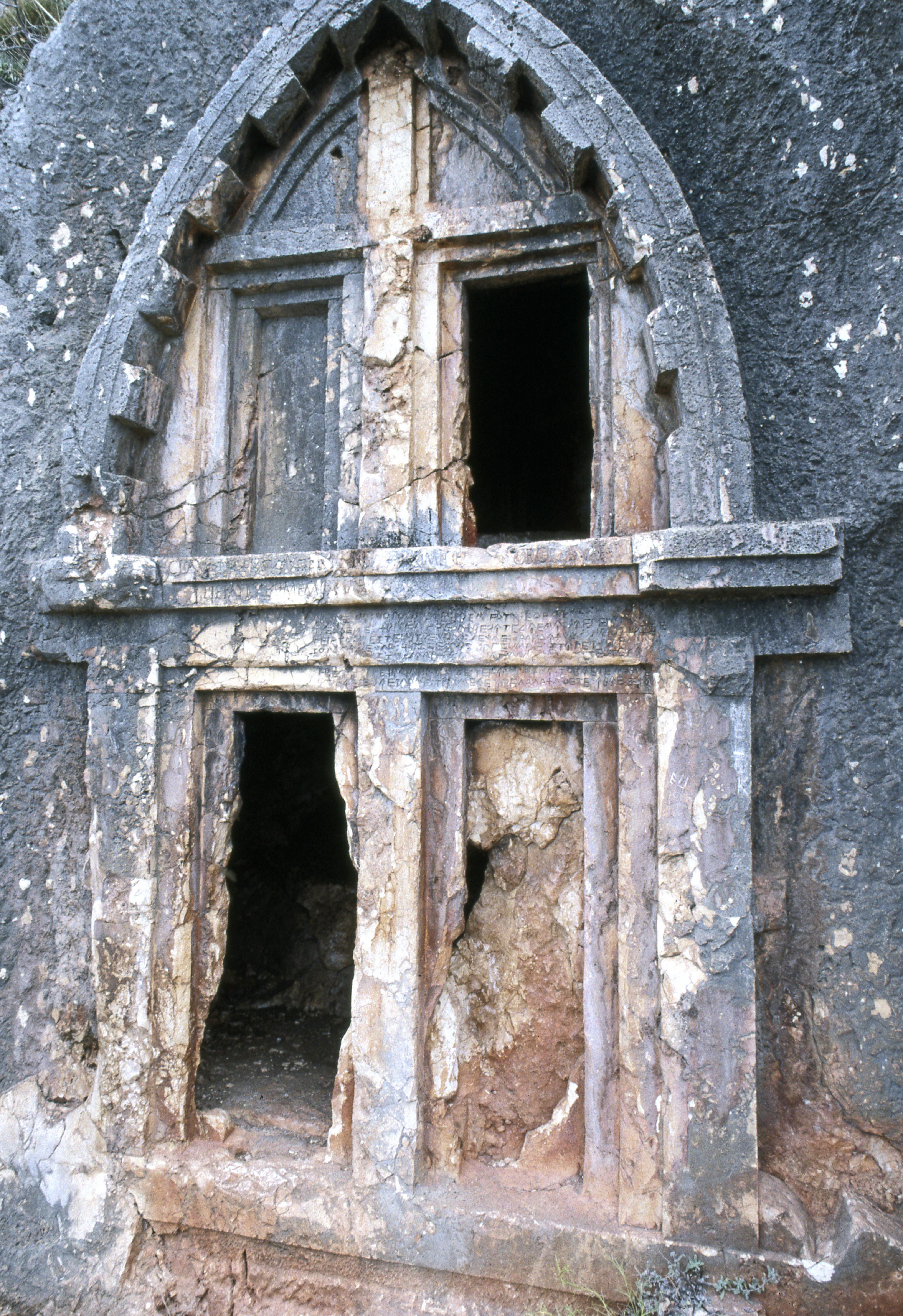 Lycian tomb in Kash, Turkey